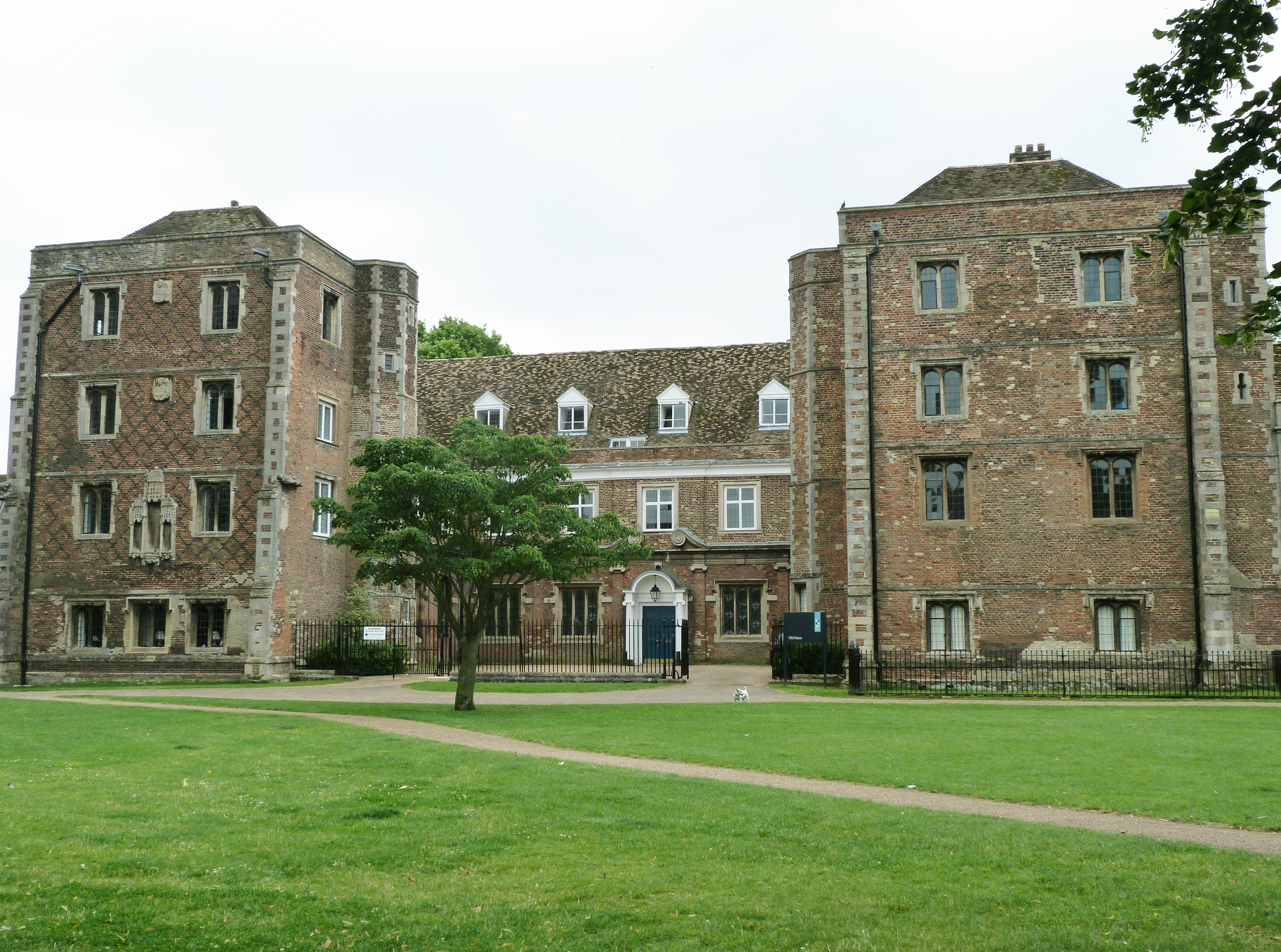 THE GREAT HALL (BISHOPS RESIDENCE) Wikidata has entry Q17527633 with data related to this building.